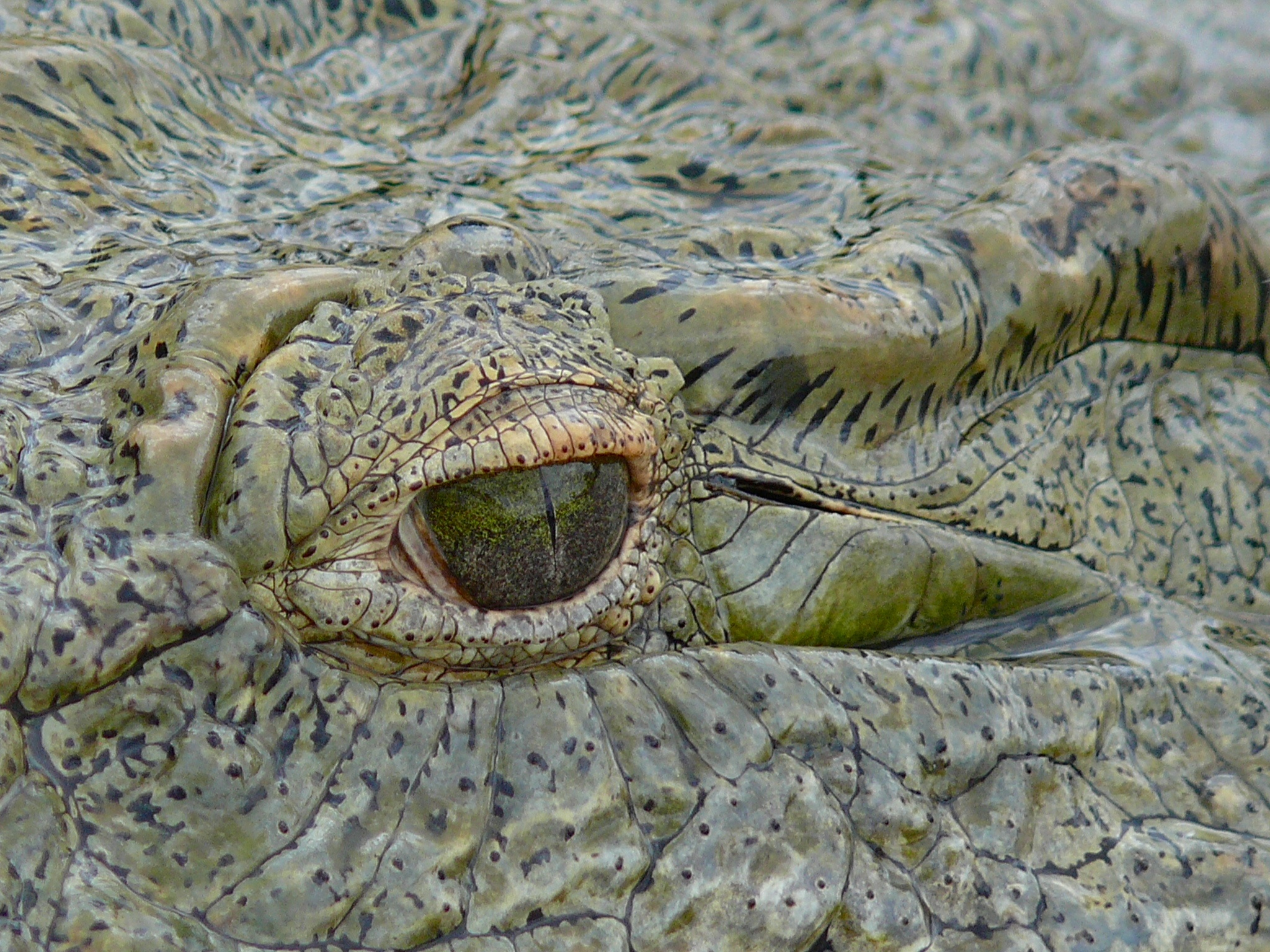 S134 Causeway behind Shingwedzi Camp, Kruger NP, SOUTH AFRICA